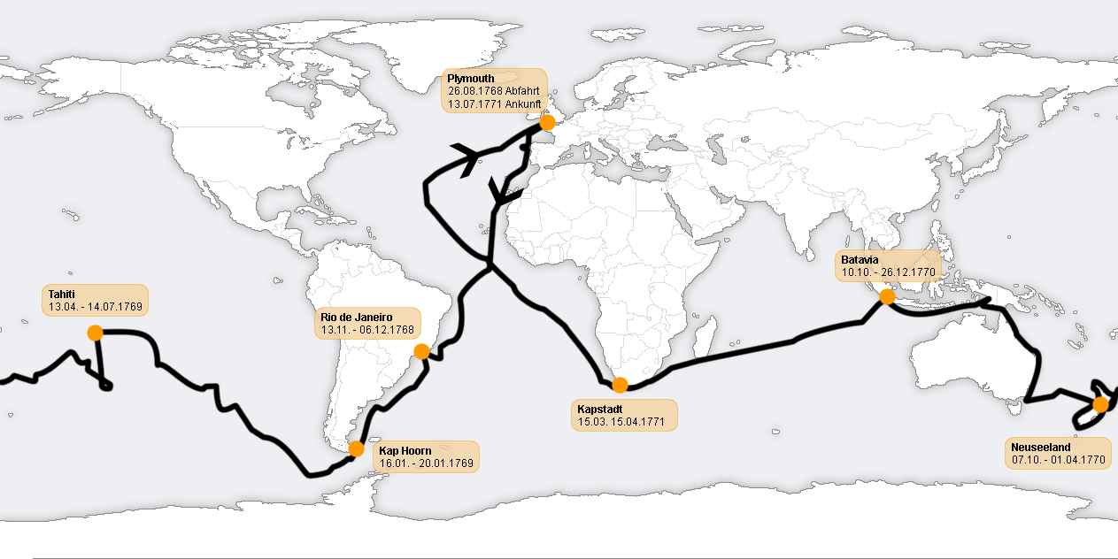 The Route of Captain James Cook's first voyage, 1768 -1771. Map labelled in German, so Cape town written as Kapstadt and New Zealand as Neuseeland using current German spelling. Abfahrt is departure, ankunft is arrival. Quelle: selbst gezeichnet, Weltkarte entnommen von der Verlauf wurde der Karte von herausgelesen Fotograf oder Zeichner: Christoph Lingg Datum: 02.09.2005